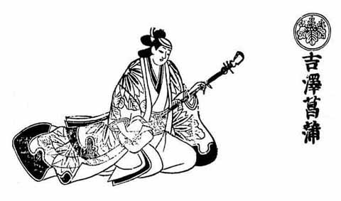 Yoshizawa Ayame I in an illustration from the book Amayo no Sambai Kigen (1693). The woodblock-printed characters on the right side are the actor's name. Image taken from . This is a photo or scan of a book illustration made over 300 years ago; as such, the book is definitively in the public domain. In the case that this particularly photography of it is not, it is surely fair use.